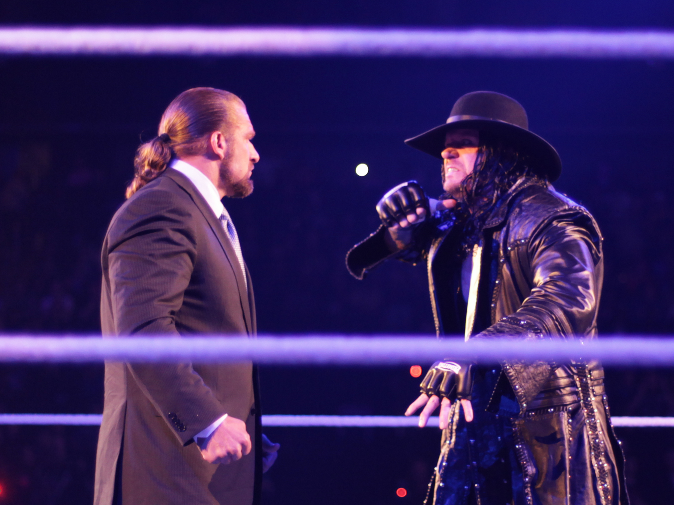 The Undertaker (right) staring down Triple H on the January 30, 2012 episode of WWE Raw. Cropped from original image.